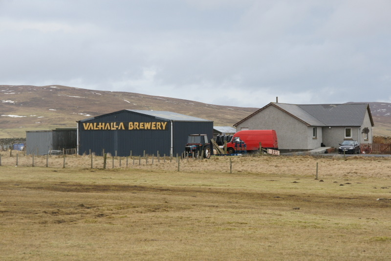 Valhalla Brewery, Baltasound Britain's most northerly micro-brewery, soon to move to new premises at the former RAF Saxa Vord. For more information